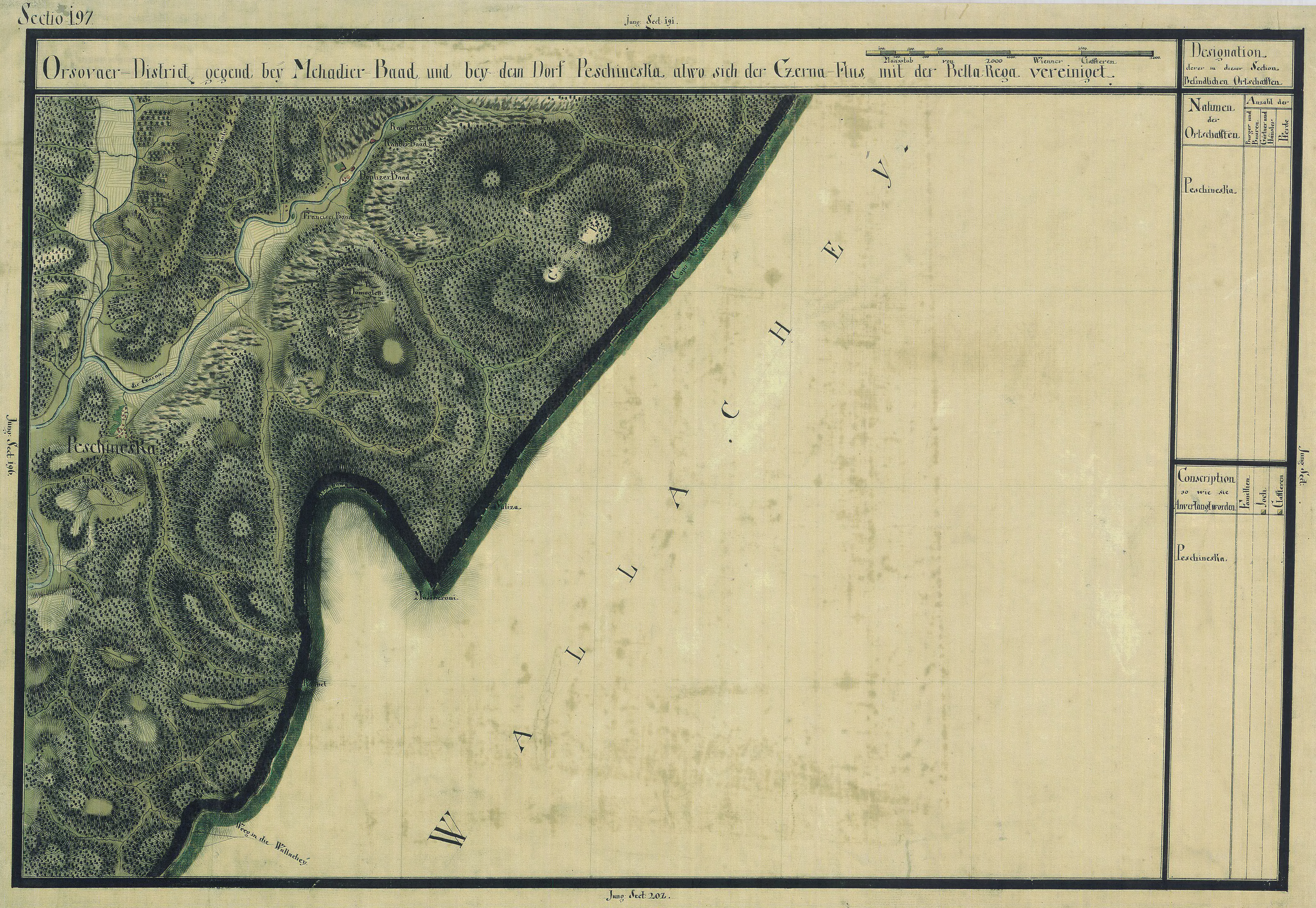 The Banat region in the cadastral maps: Josephinische Landesaufnahme, 1769-72. Josephinische Landaufnahme pg197